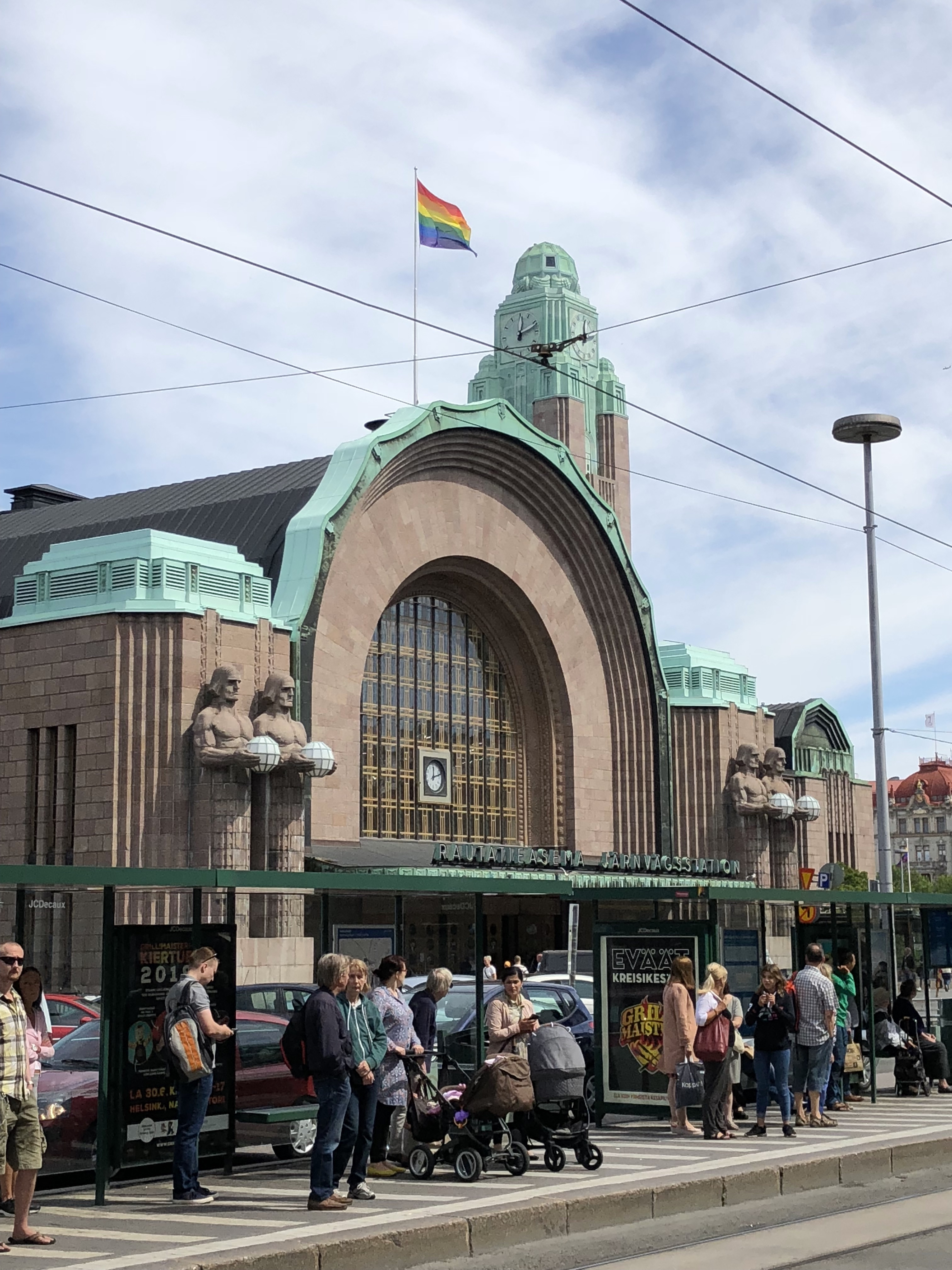 Helsinki Central Station during Helsinki Pride in June 2018